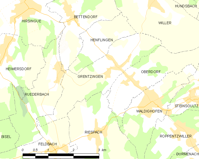 Map of French municipality